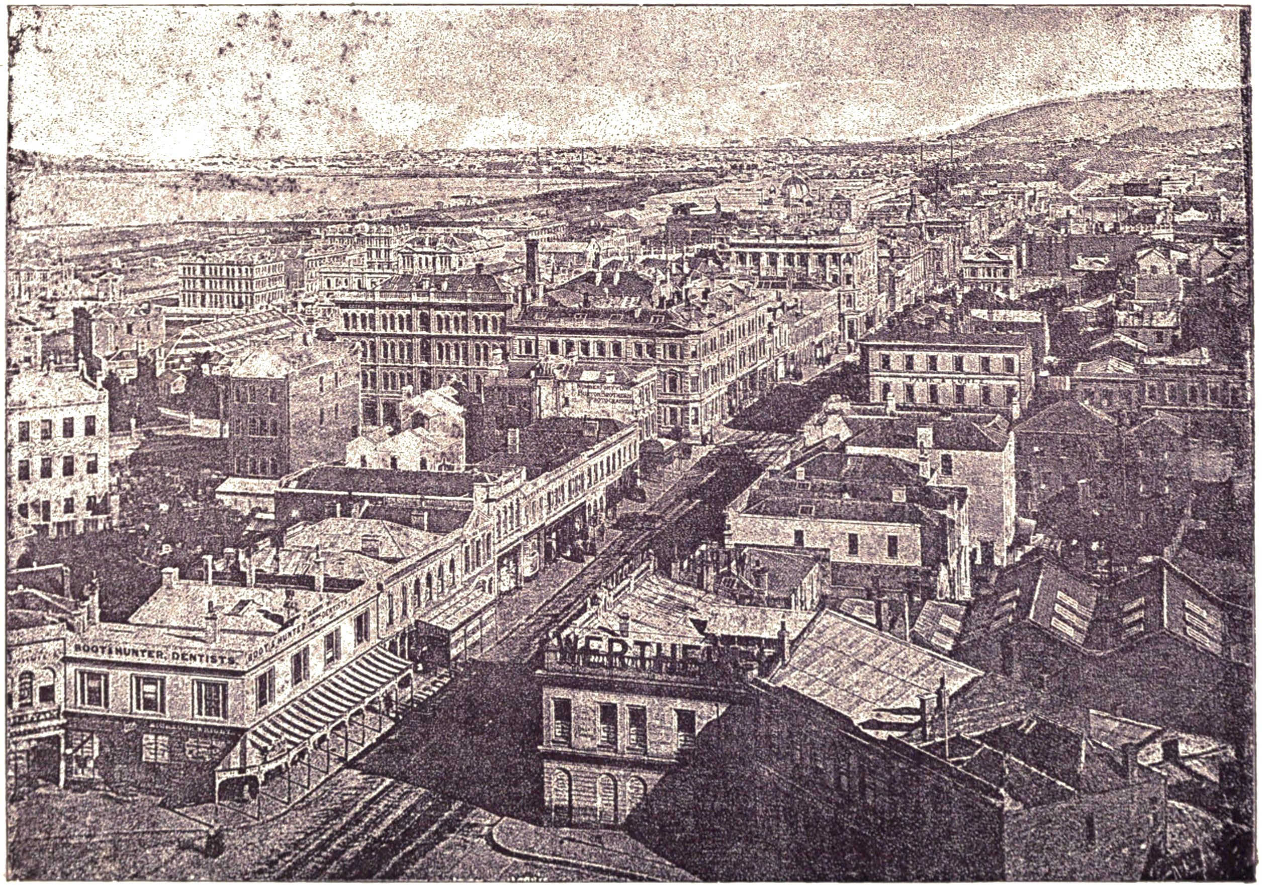 jpg of image on page 5 of File:Picturesque Dunedin.dvju